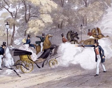 Detail of lithograph by J. R. Jobbins of Edward Oxford attempting to shoot Queen VictoriaFull version at File:Edward Oxford tries to shoot Queen Victoria in 1840 by JR Jobbins.jpg.